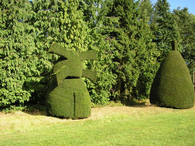 Clipsham Yew Tree Avenue — the "Windmill" topiary sculpture. Located in the Clipsham Hall Park, near Clipsham, England. The topiary avenue (landscape allée) stretches for 500 metres (1,600 ft), with ~150 shaped yew trees—Taxus baccata topiary lining the former carriage drive to Clipsham Hall.